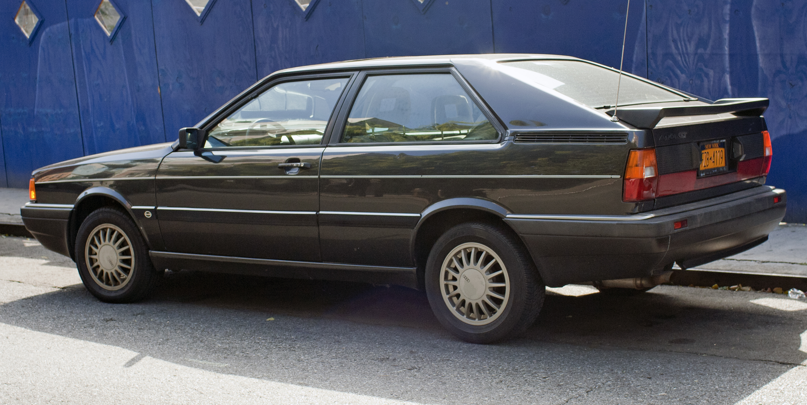 1986 Audi GT Coupé (five-cylinder), US market version